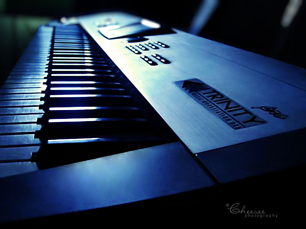 KORG Trinity My keyboard. Korg trinity; a sequencer used by composers and keyboardist. My dad bought this since 1998 for sequencing but I use it now for my band and home recording at my own small room where me, my girlfriend and my keyboard only fits. hahahahahaha..